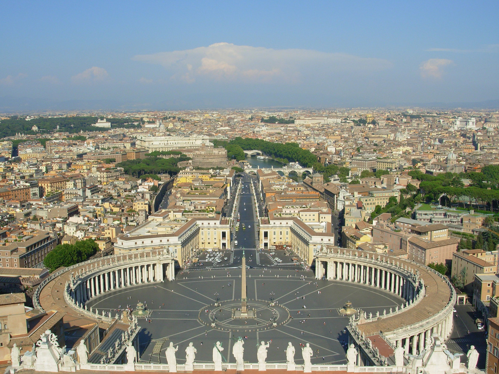 St. Peter square (Vatican).